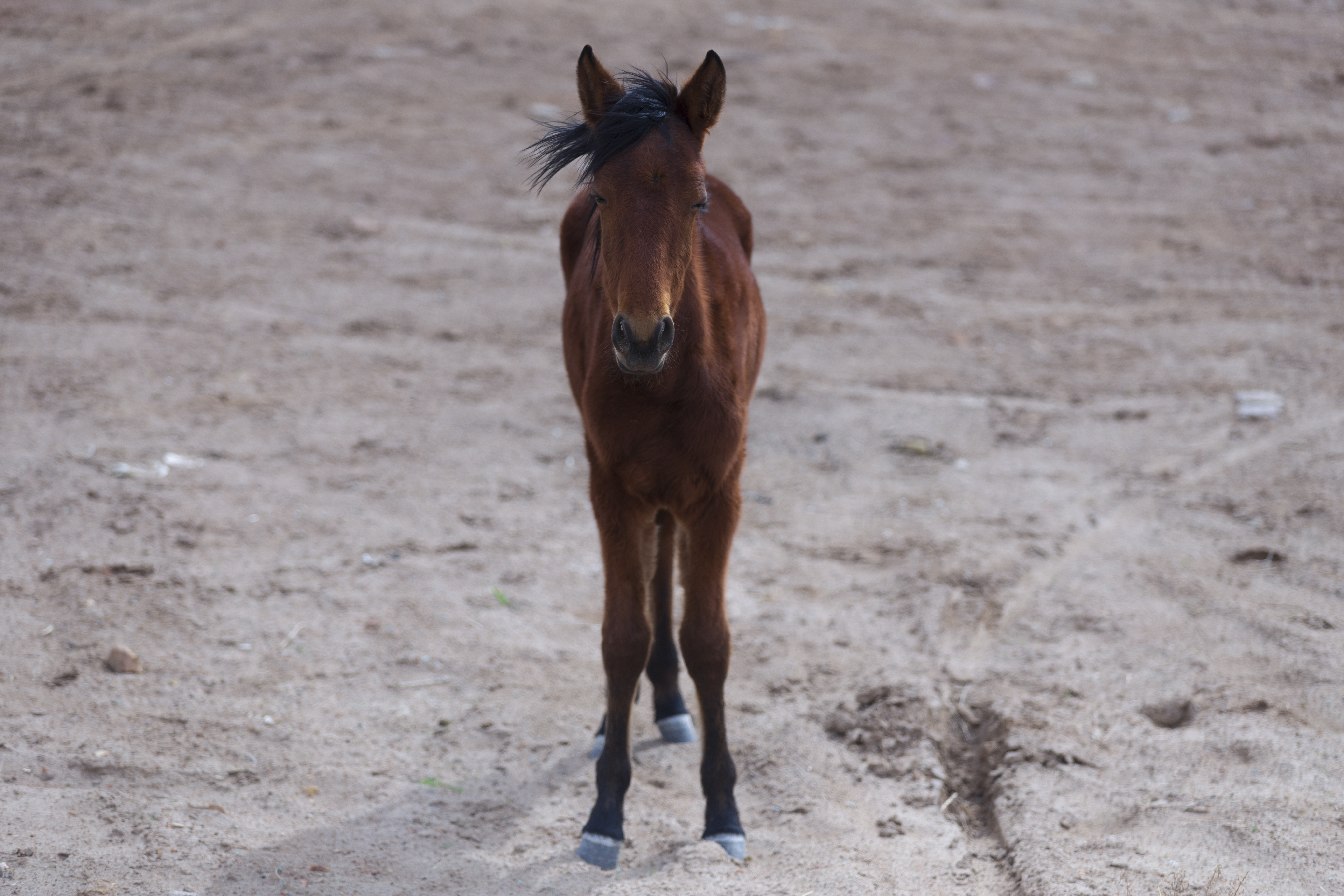 The horse is one of two extant subspecies of Equus ferus. It is an odd-toed ungulate mammal belonging to the taxonomic family Equidae.